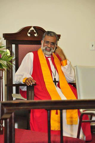 12th Bishop of CSI Diocese of Madhya Kerala :: Rt. Rev. Thomas K. Oommen